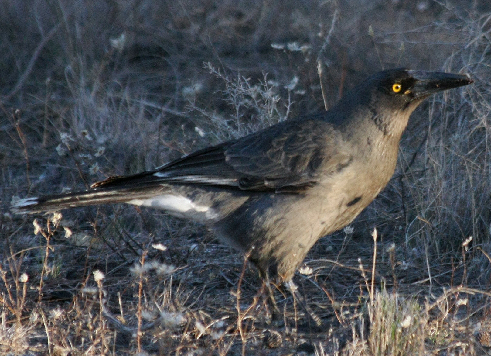 Grey Currawong (subspecies plumbea), Perth, WA